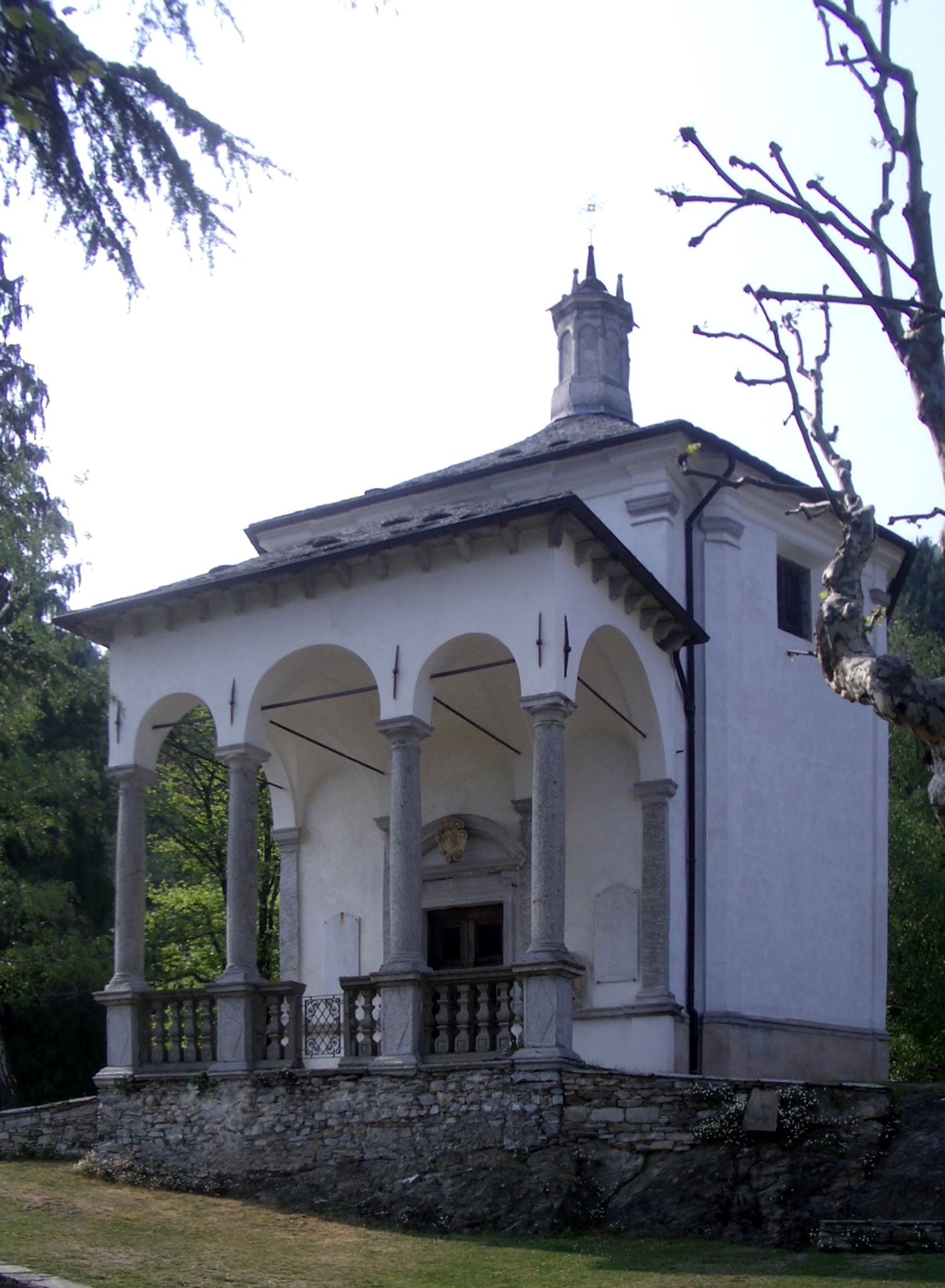 Sacro Monte di Ghiffa, (Verbania), Italy, The Crowning of Mary Chapel